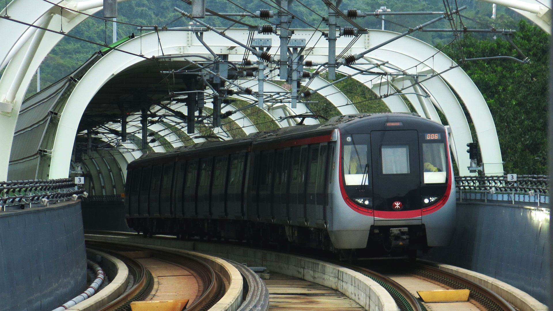 South Island Line train taken at Ocean Park Station